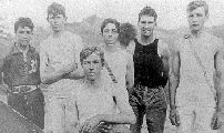 The Ramona High School Basketball team in 1914. From left to right: Lawrence Anderson, John Dukes, Ernest Green, Frank Stockton, George Sheldon, Kneeling: Ben Wells